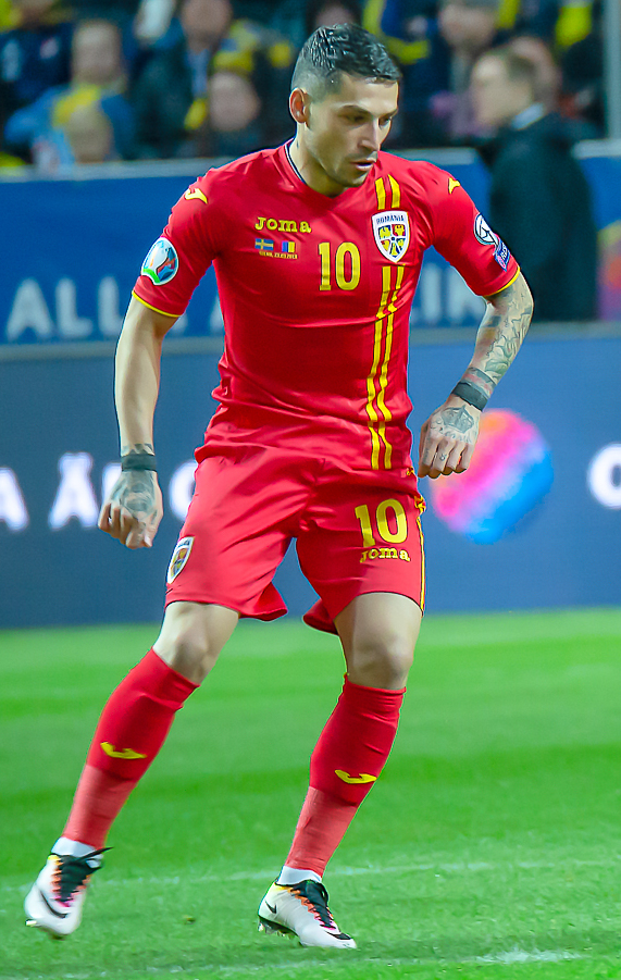 UEFA EURO qualifiers Sweden vs Romaina 20190323